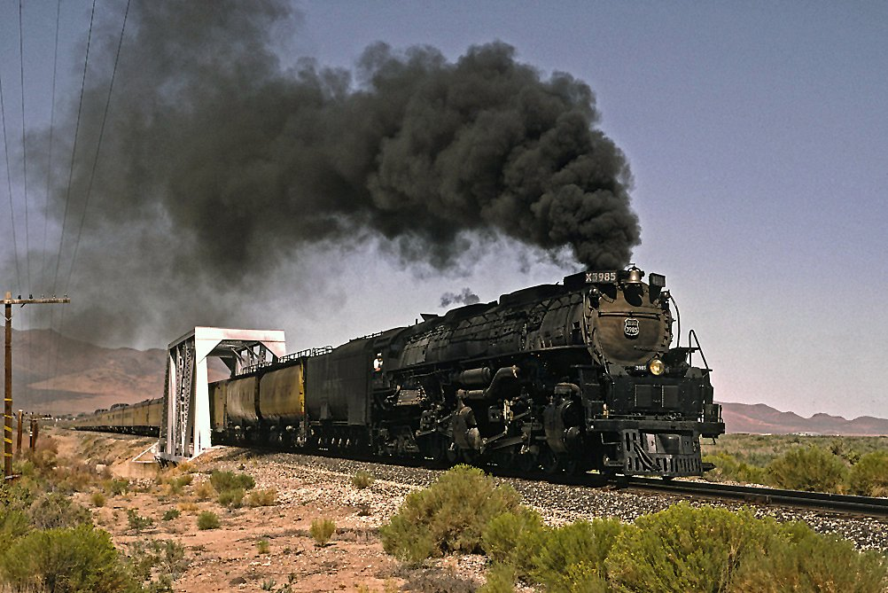 On the way home to Cheyenne from the NRHS convention in San Jose, UP #3985 passes thru Golconda, Nevada